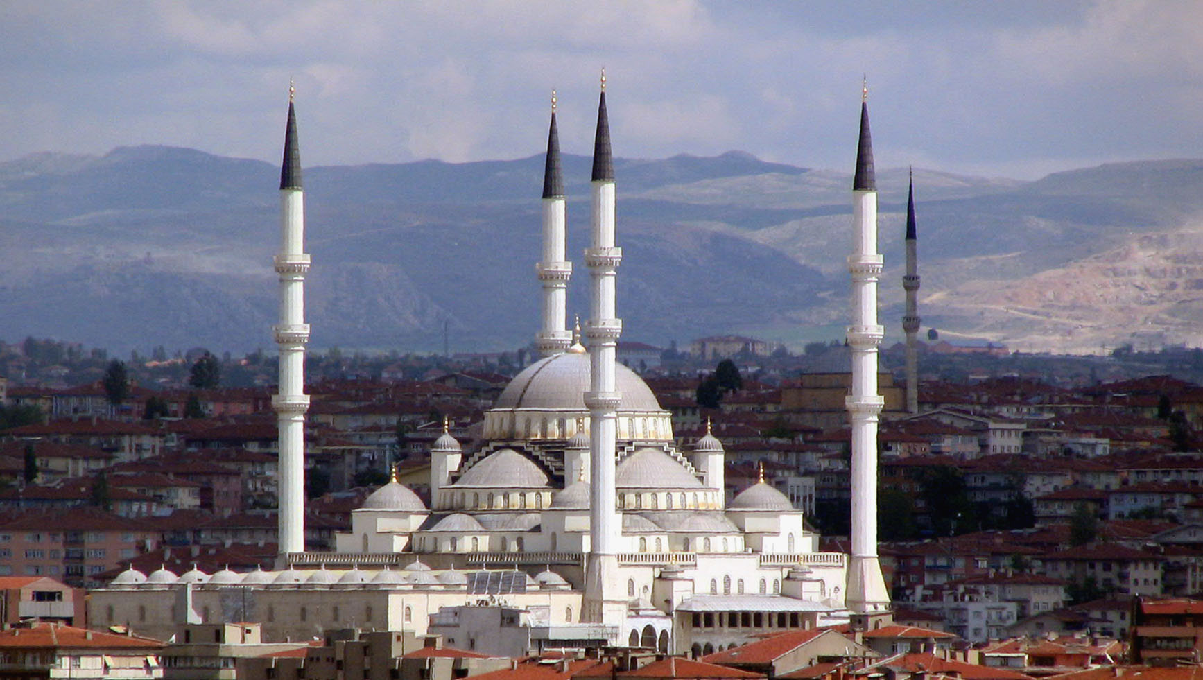 The Kocatepe mosque in Ankara, Turkey